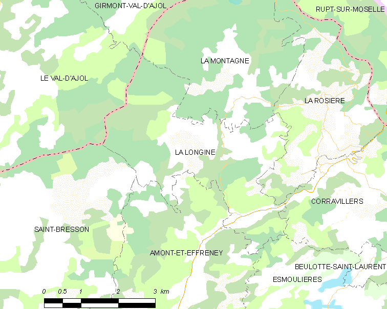 Map of French municipality